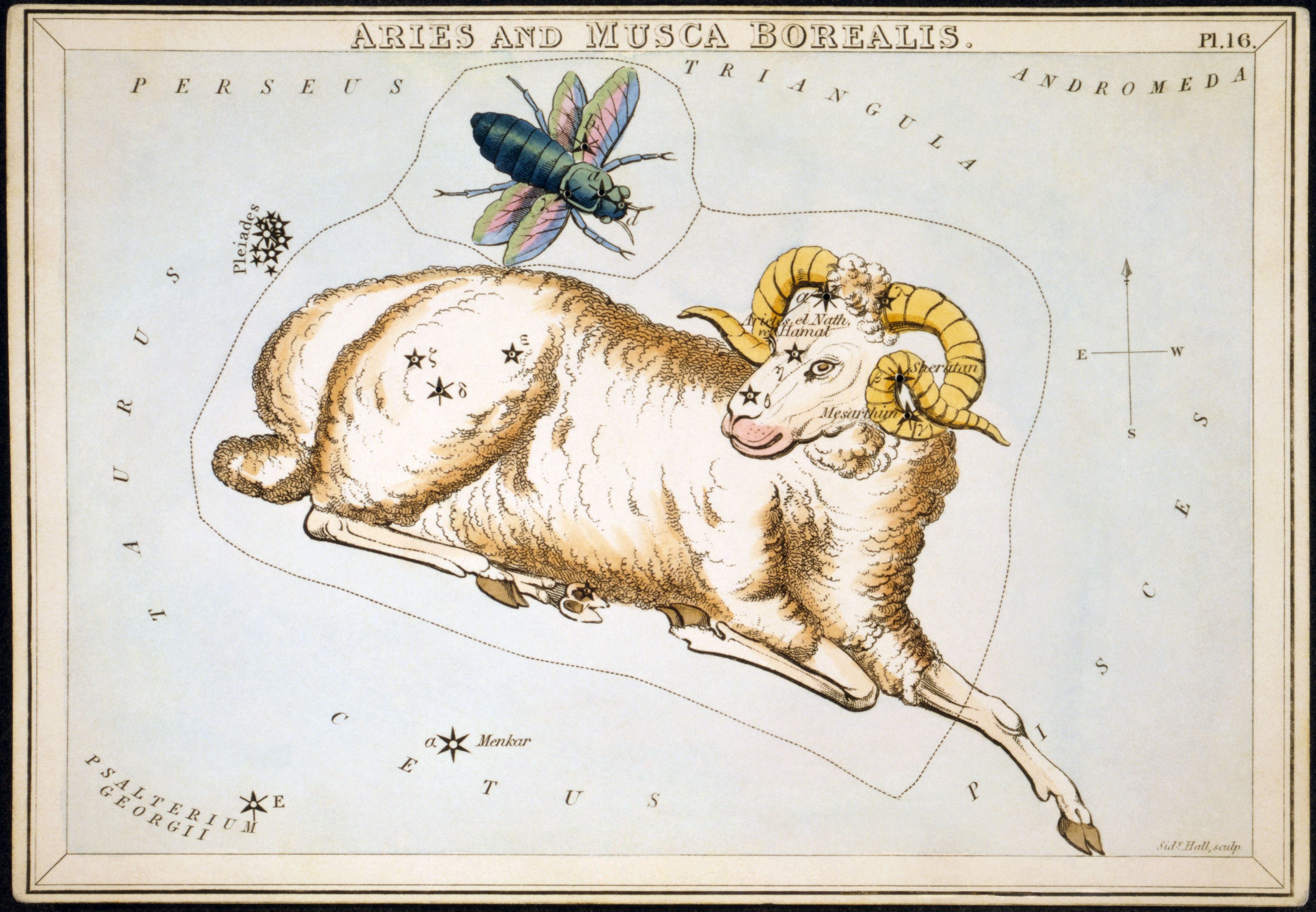 Aries and Musca Borealis. Astronomical chart showing artwork of the constellations. 1 print on layered paper board : etching, hand-colored.